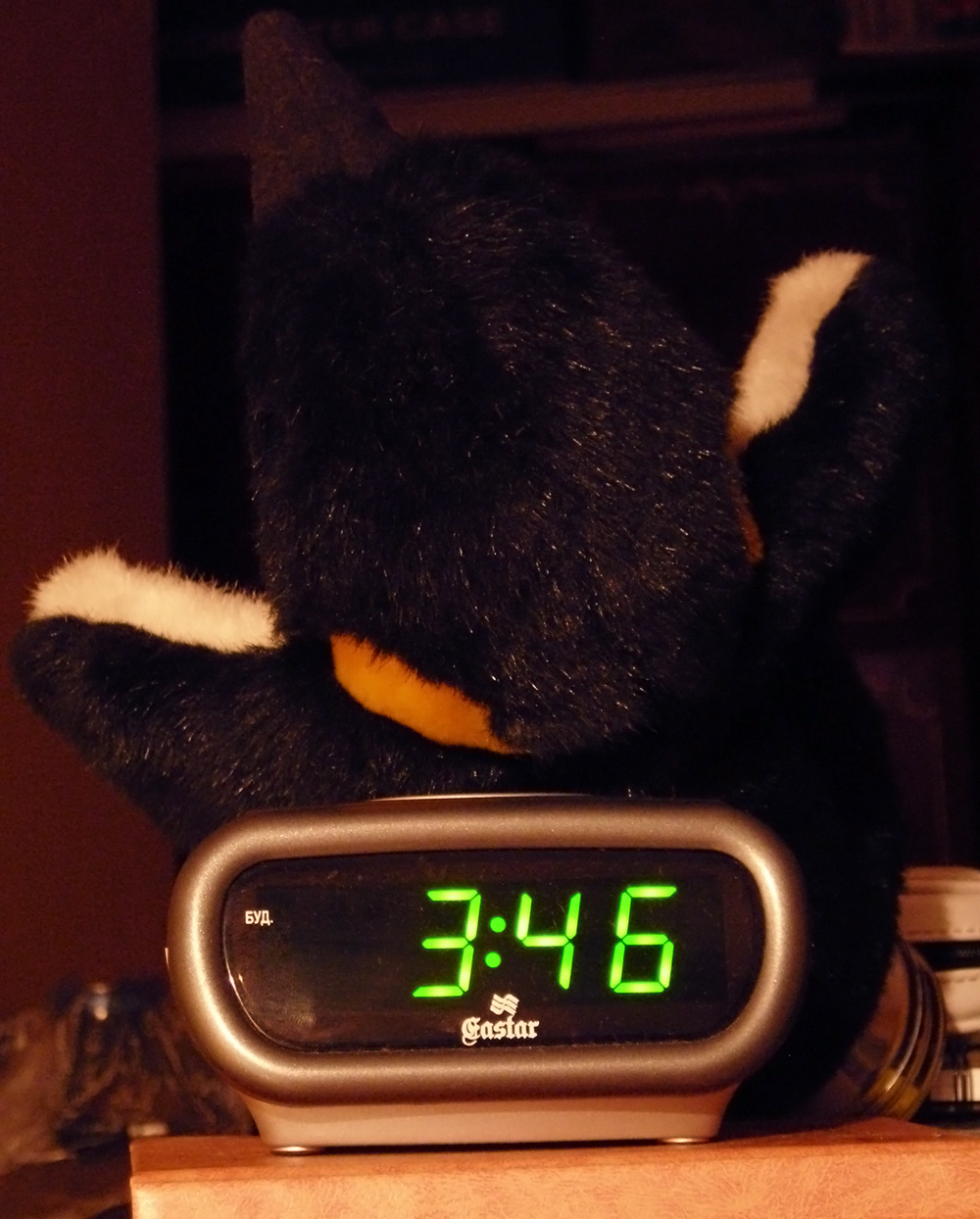 A tired penguin puppet, appealing one wikimedian to go to the bed